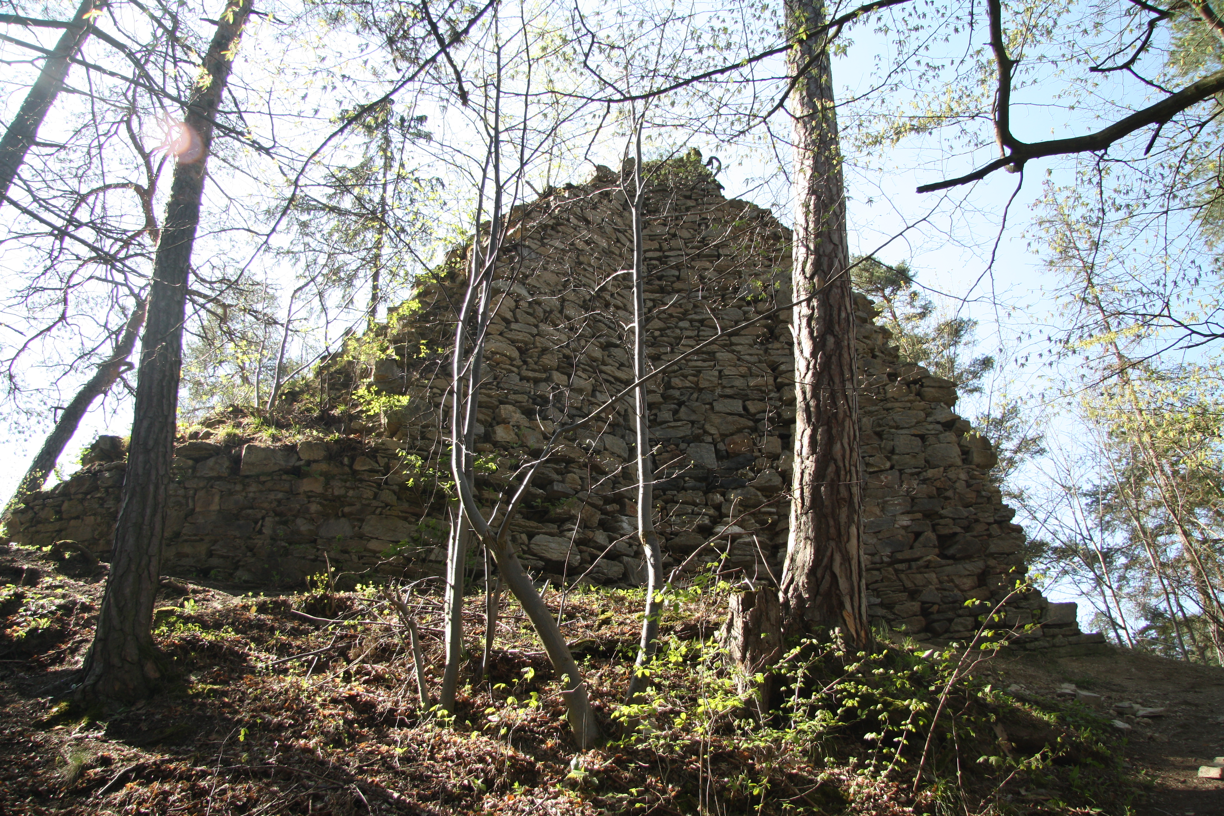 Overview of Holoubek castle in Třebenice, Třebíč District.